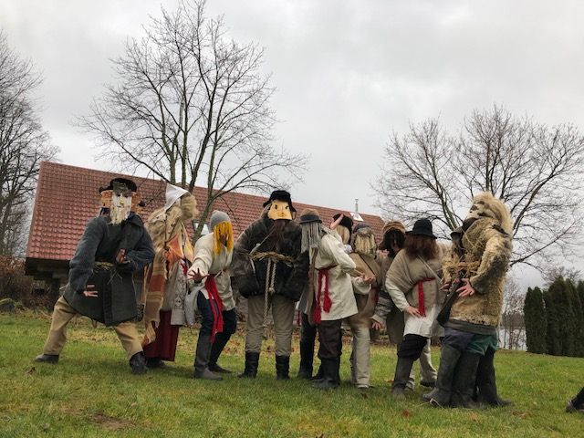 Traditional Latvian masks used in mumming ritual processions during Mārtiņi on November 10 and Katrīnas on November 25